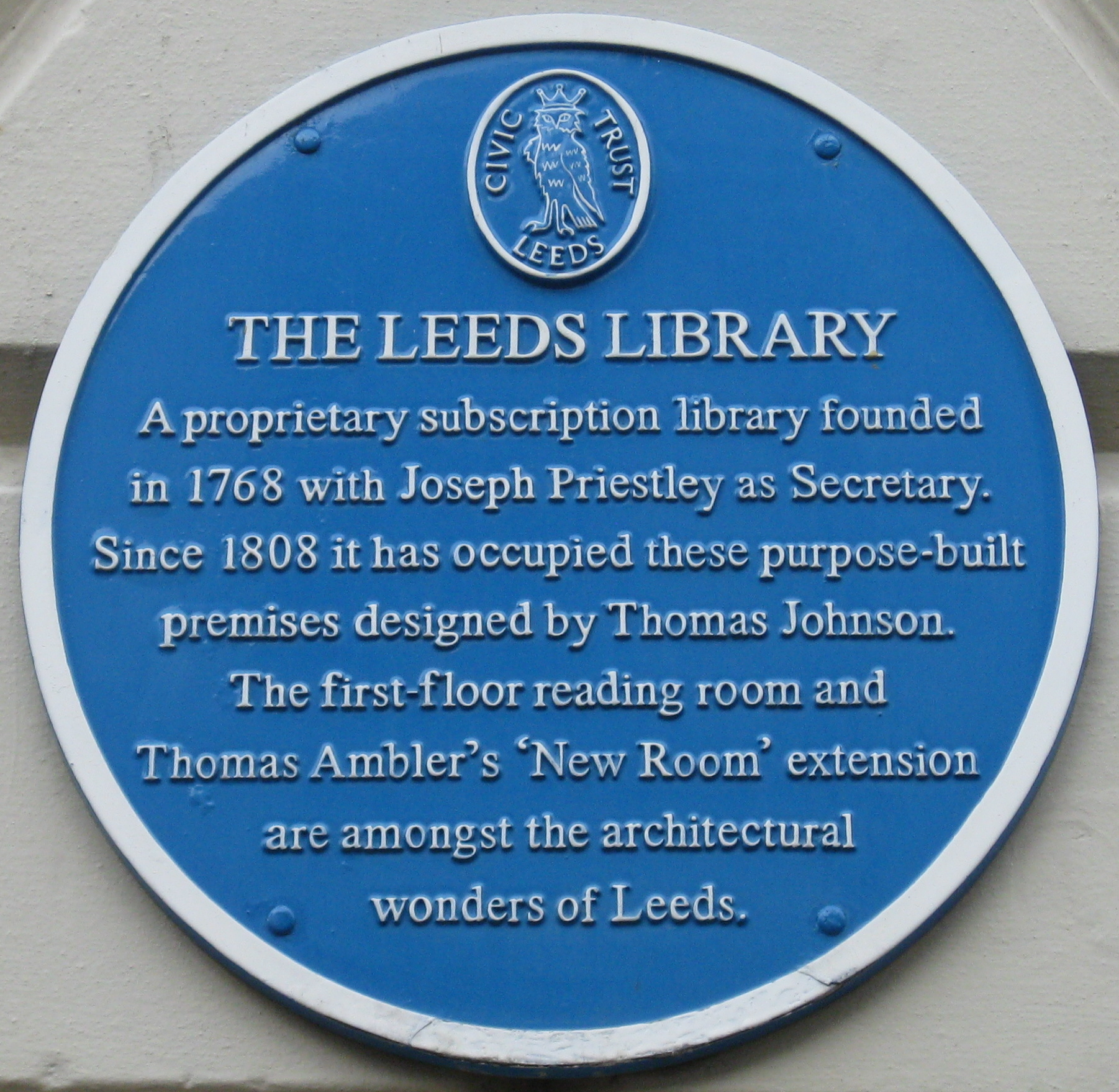 Blue plaque on the wall of Leeds Library, Commercial Street, Leeds.